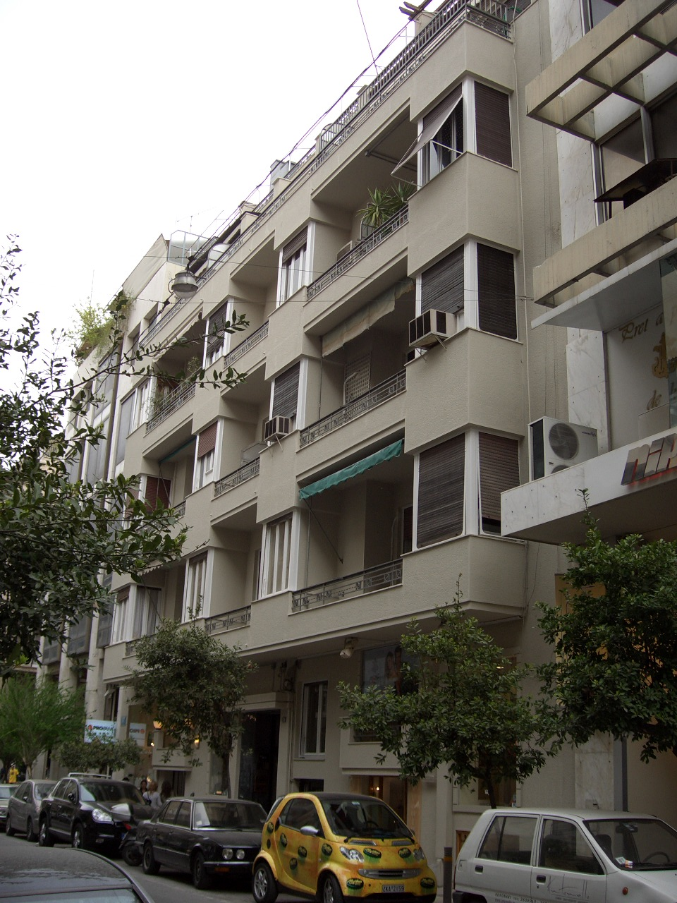 House from early modernism (1920ies) in Kolonaki, Athens Photo:Christos Vittoratos